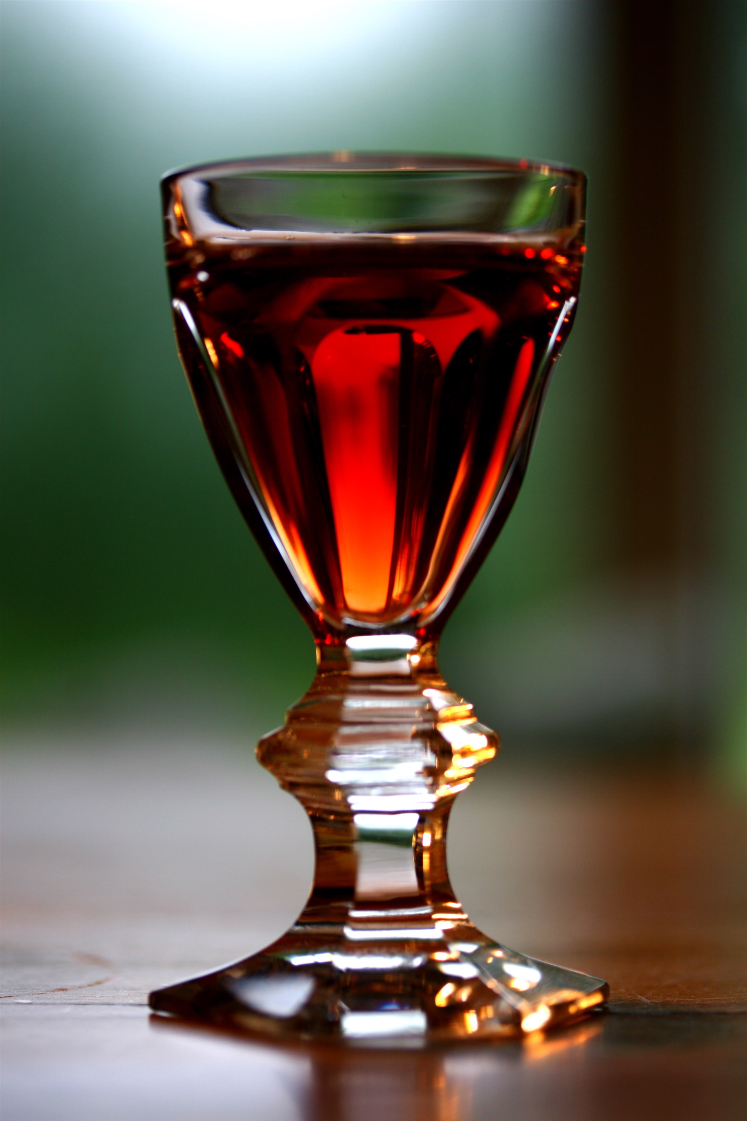 Years ago, friends gave a New Year's Eve party and served port. I had never had it before, but I loved it instantly. Now I keep it in my house. I buy decent port--not the $80 bottle variety, but not the brown paper bag variety either. Sometimes, when I feel the need for something special, I pour it into a small crystal glass and savor its appearance as well as its taste. R.L. Stevenson said, "Wine is bottled poetry." He must have been writing about port.